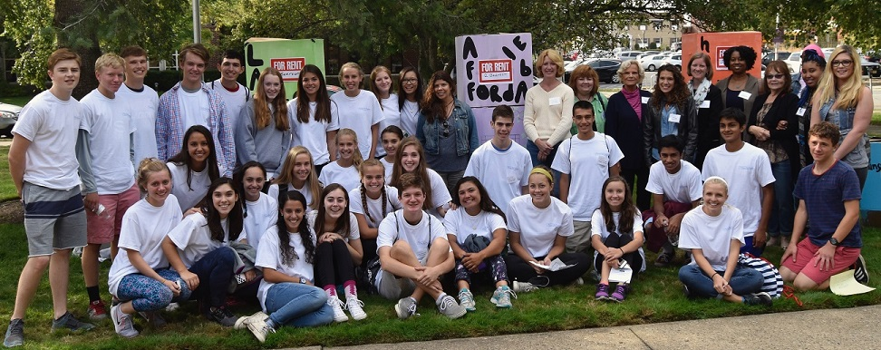 Family Promise staff and volunteer group photo at a local fundraising event